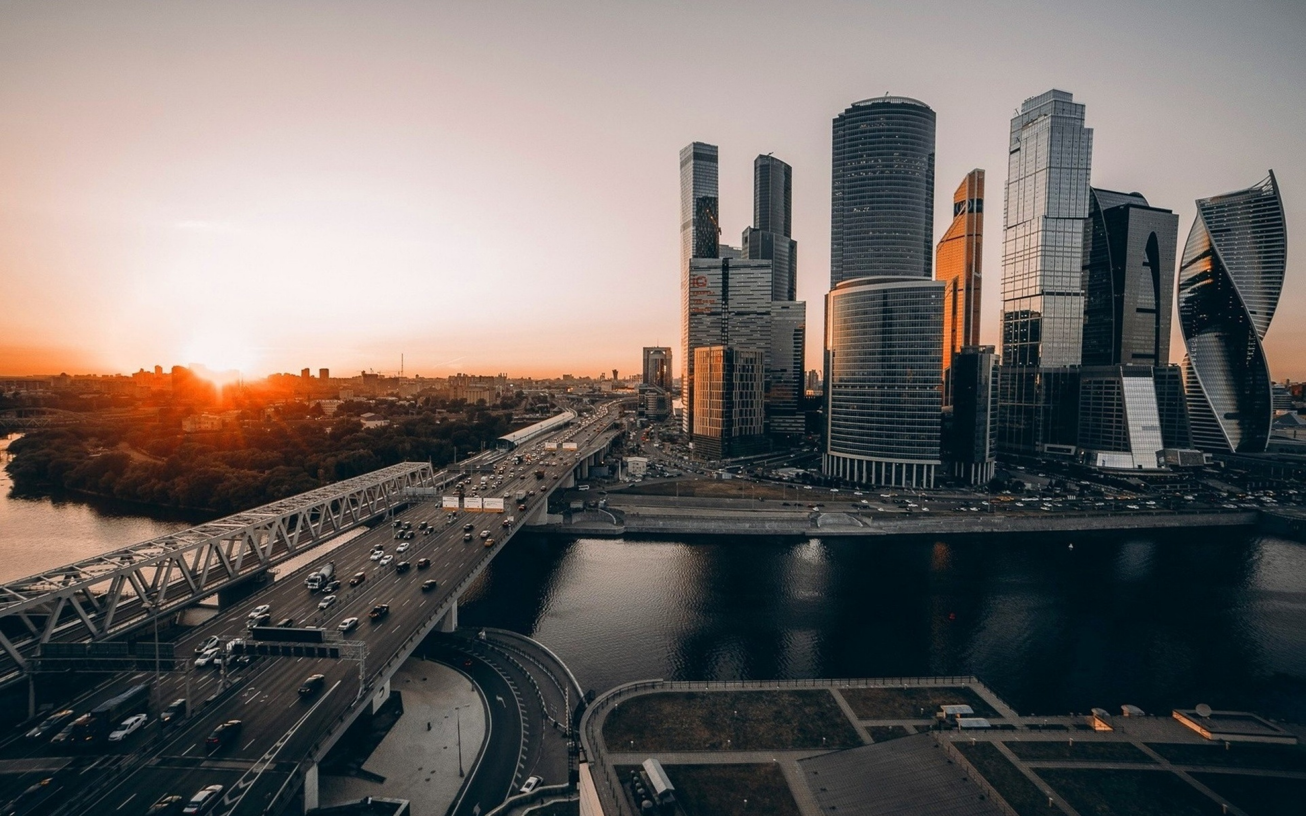 Third Ring Road near Moscow-City